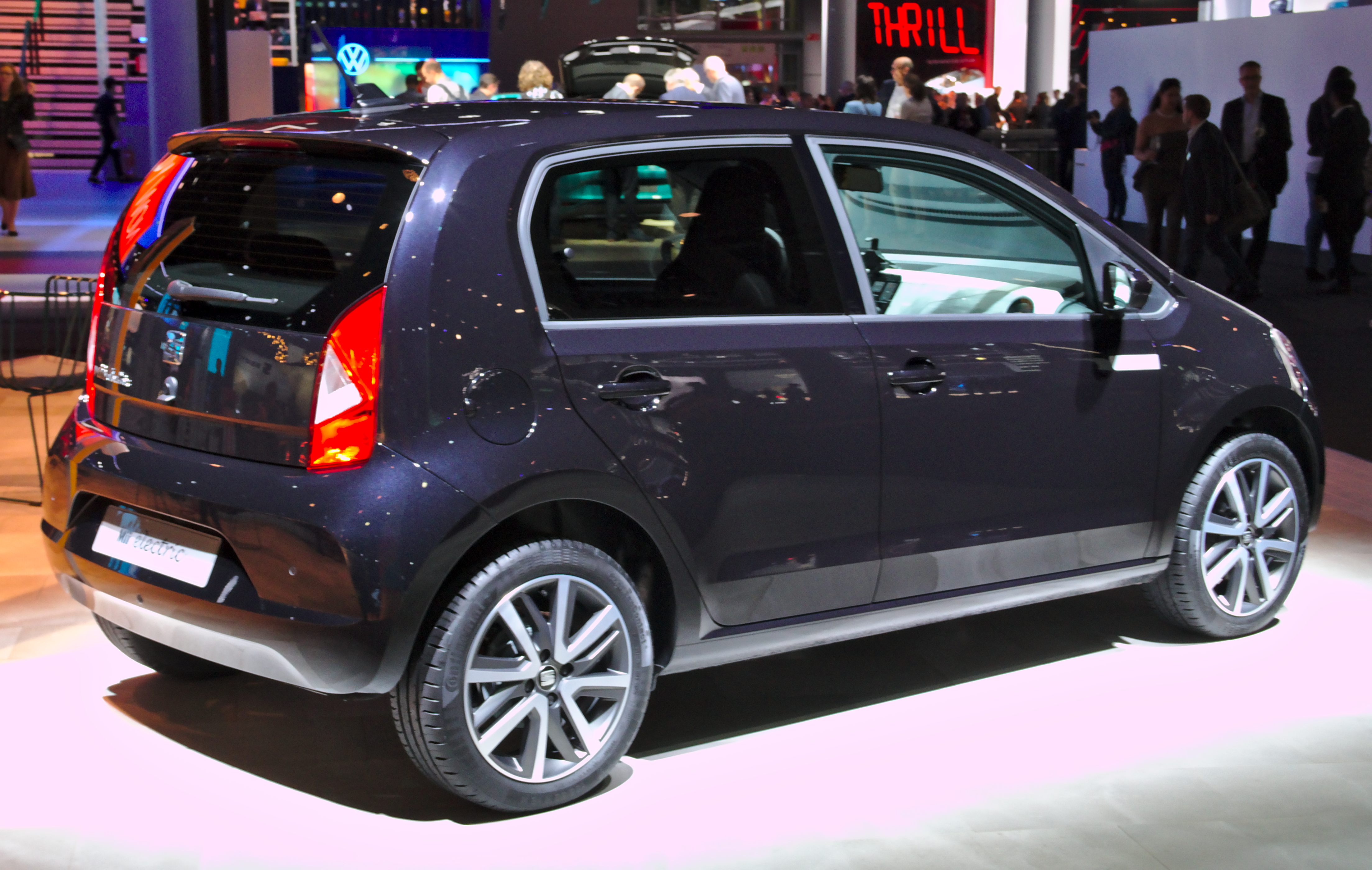 SEAT_Mii_Electric at IAA 2019